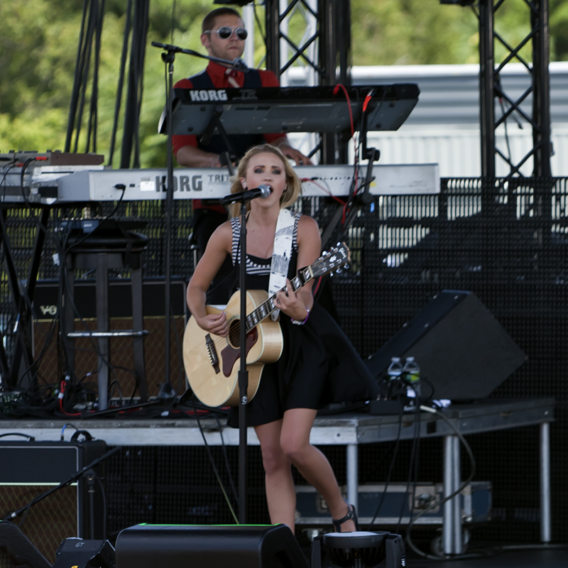 Emily Osment singing at the New Jersey Festival of Ballooning on July 24, 2010.